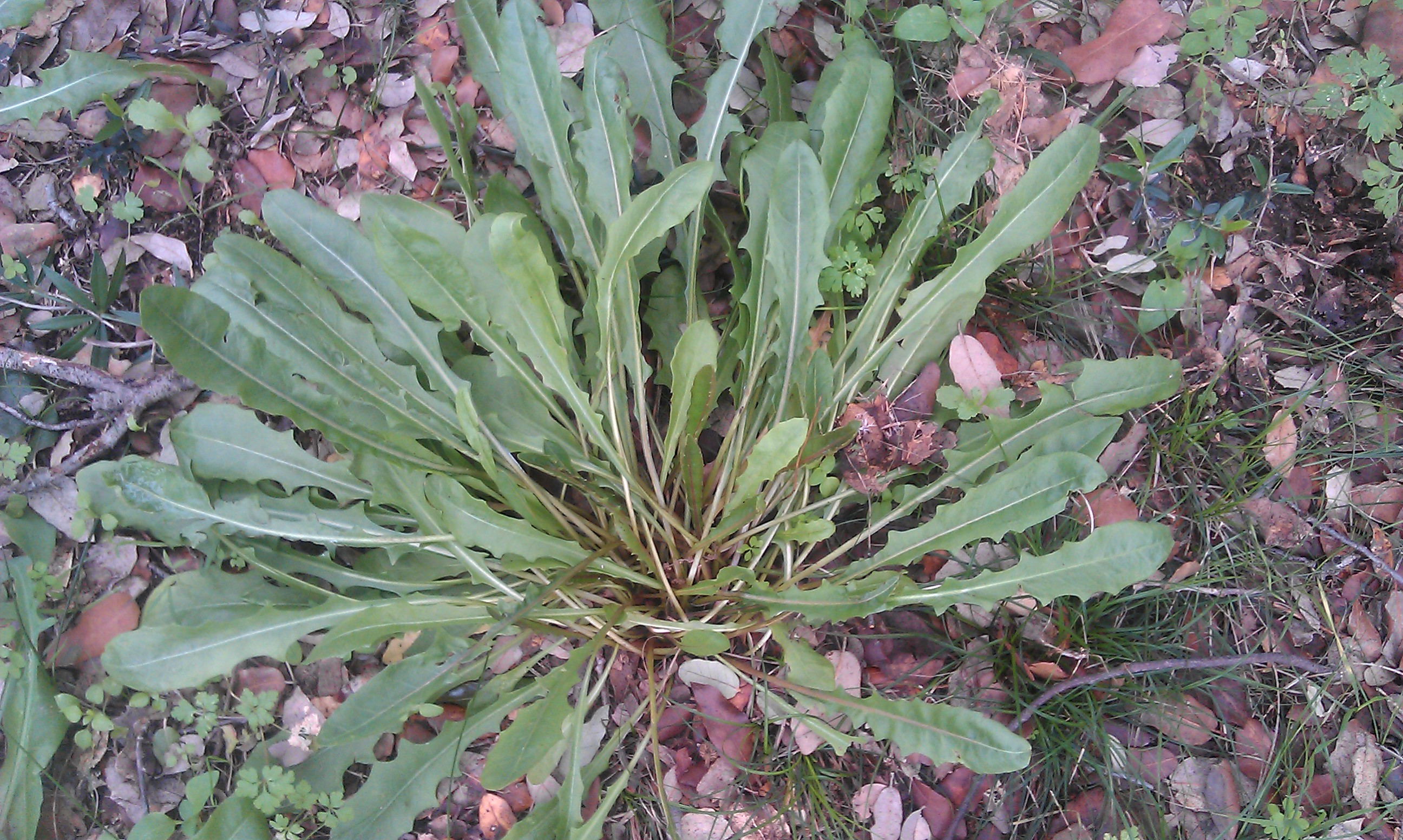 Leontodon tuberosus from Corsica